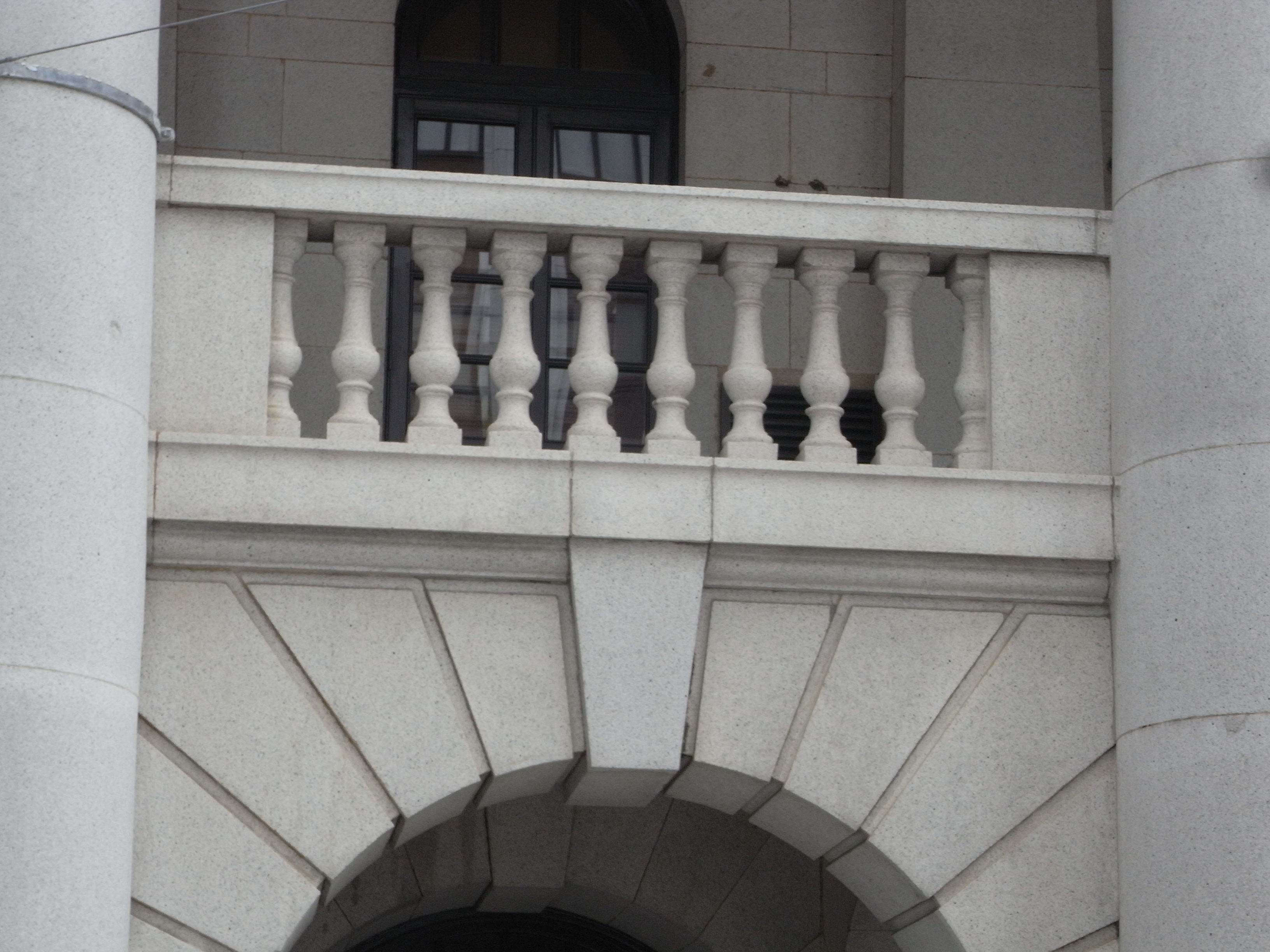 中環 德輔道中 香港立法會大樓